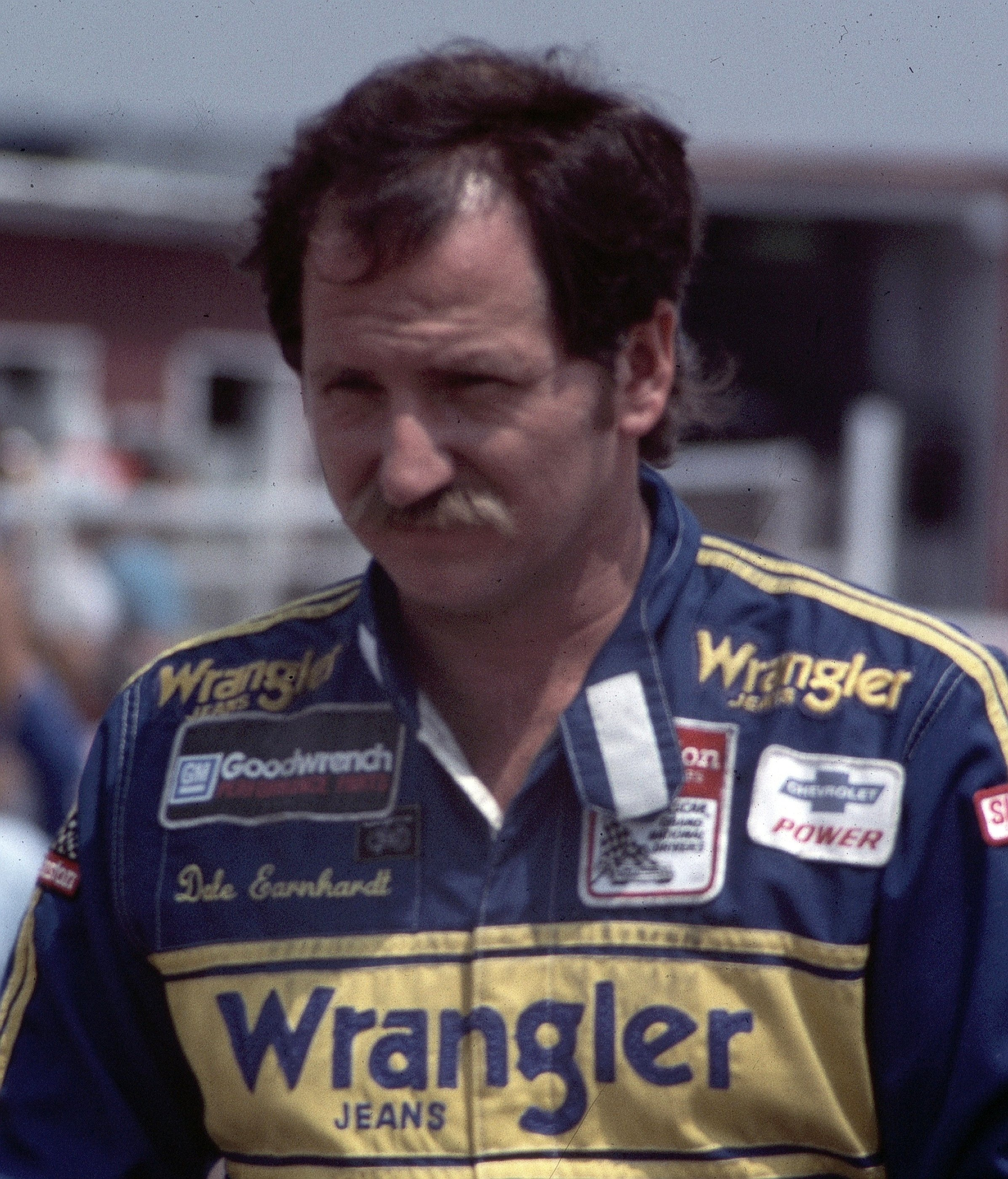 Dale Earnhardt in his Wrangler Jeans racing suit at 1985 Pocono. Photo By Ted Van Pelt